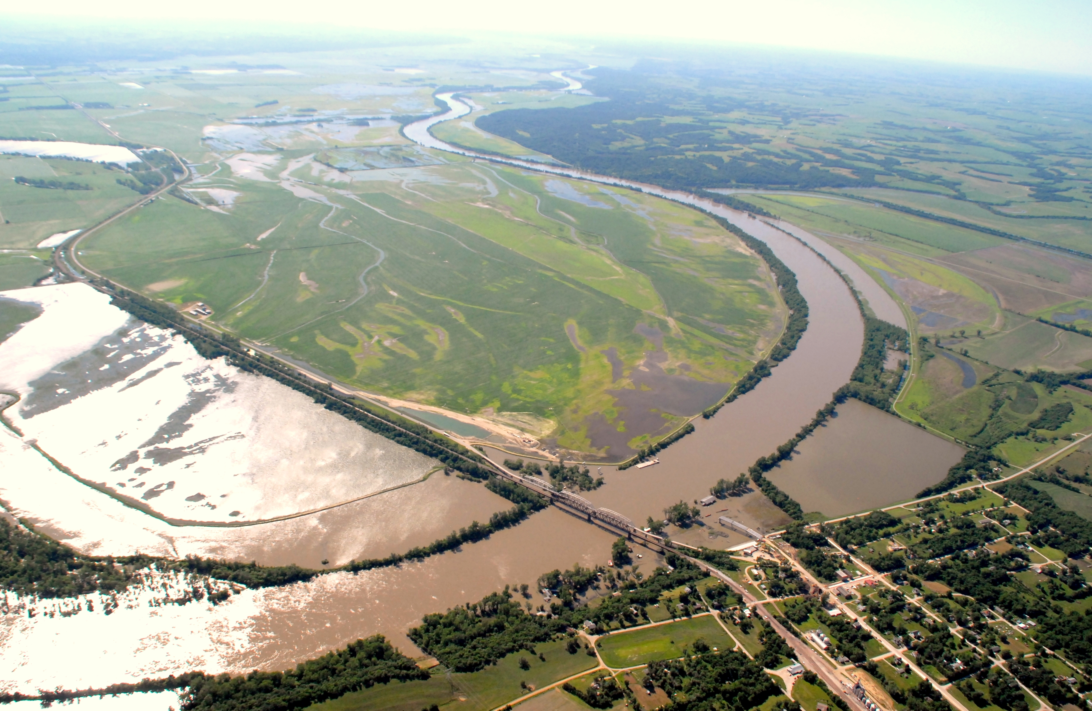 Rulo Nebraska and Rulo Bridges in the 2011 Missouri River floods on June 15, 2011. The edge of Big Lake is in the upper left.